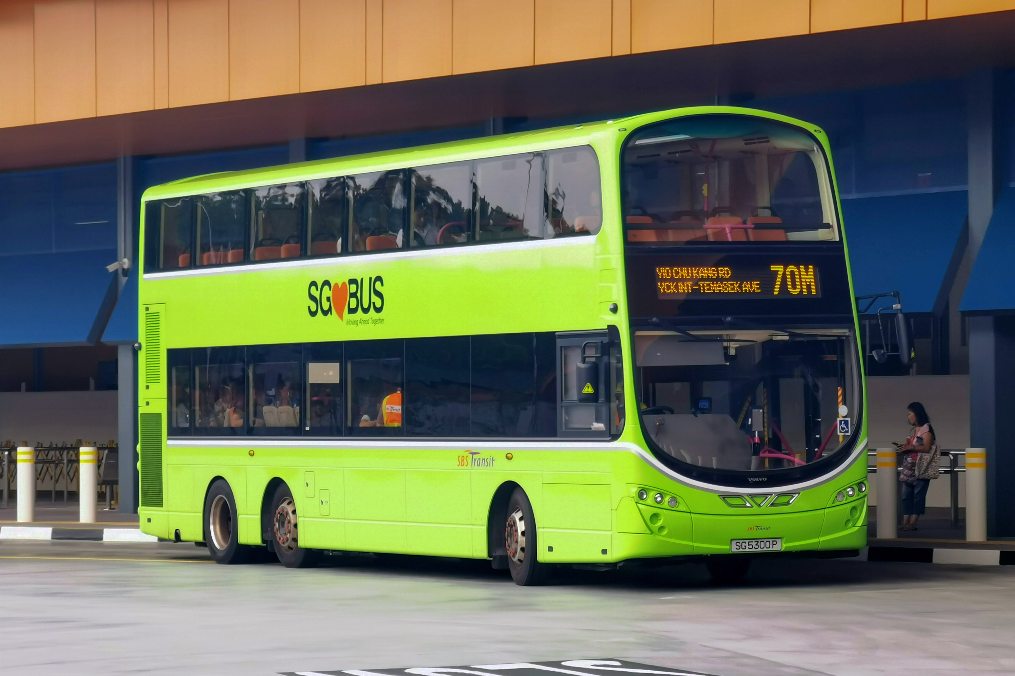 SBS Transit Volvo B9TL Wright Eclipse Gemini 2 - SG5300P 70M (1). This bus is leased from the Land Transport Authority of Singapore.